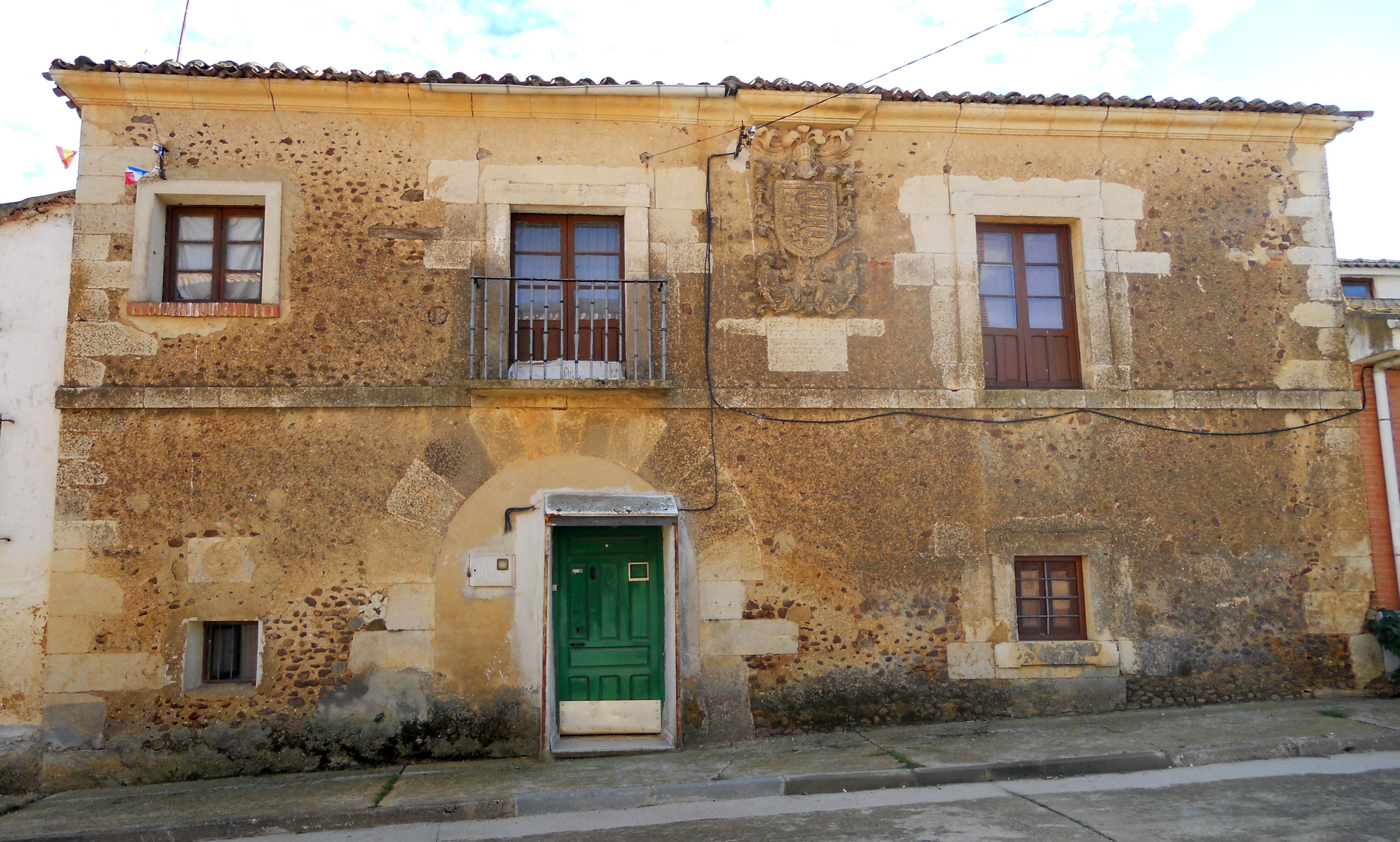 Manor house at Membrillar - Manor House 001